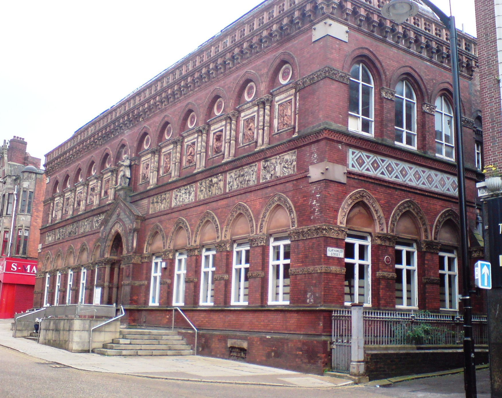 The Wedgwood Institute, a Grade II* Listed building in Burslem, Stoke on Trent